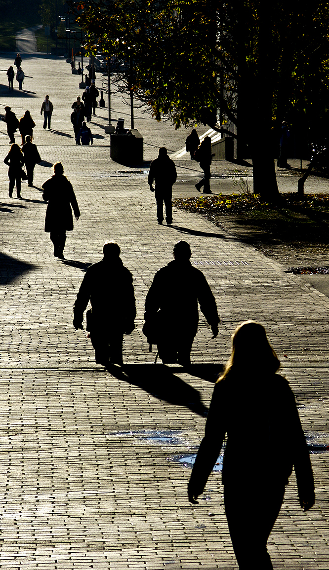 Winegard Walk, University of Guelph, Guelph, Ontario Canada